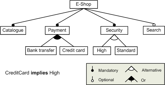 Author: Sergio Segura